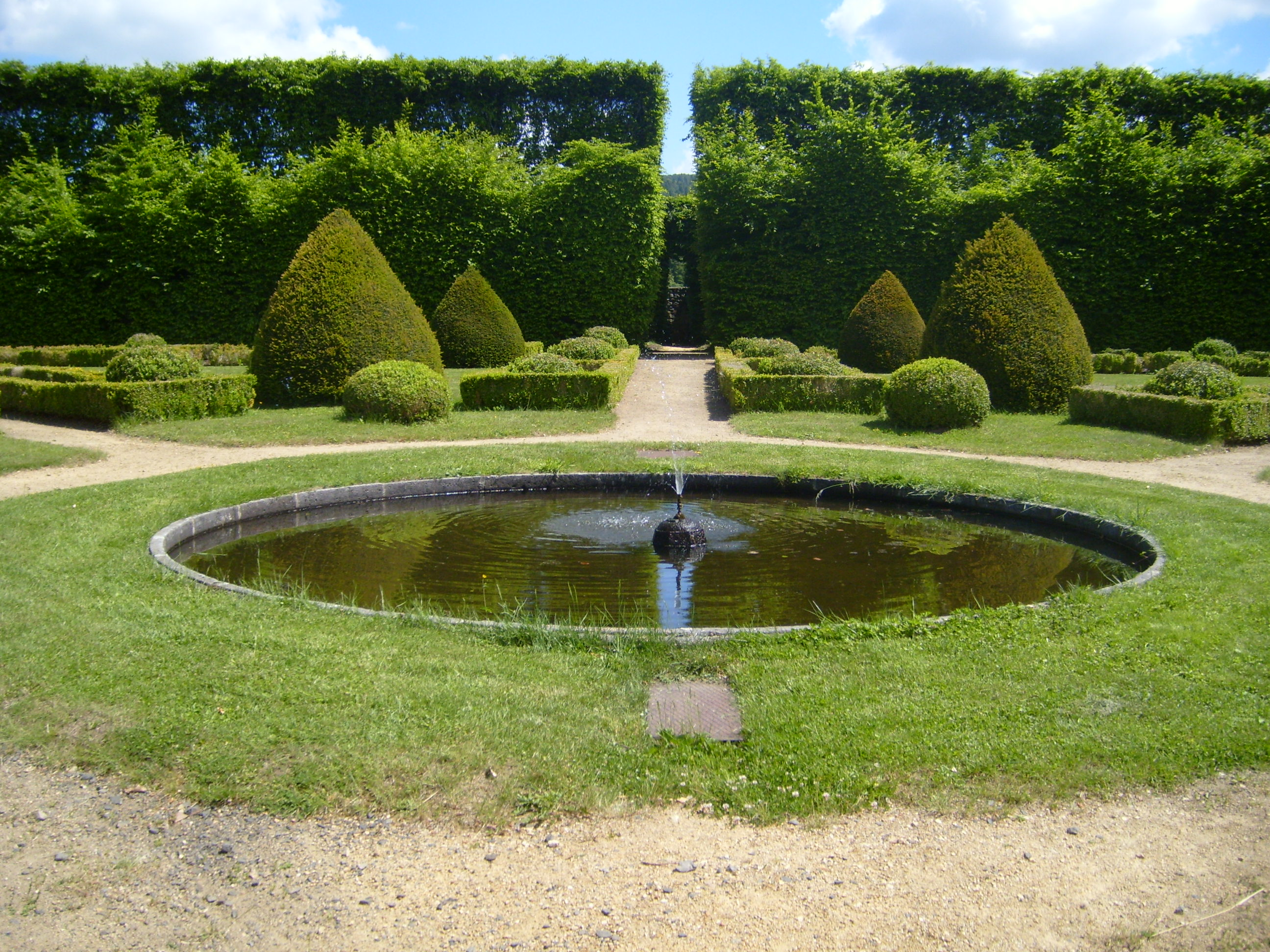 French garden of the Chateau de Cordes